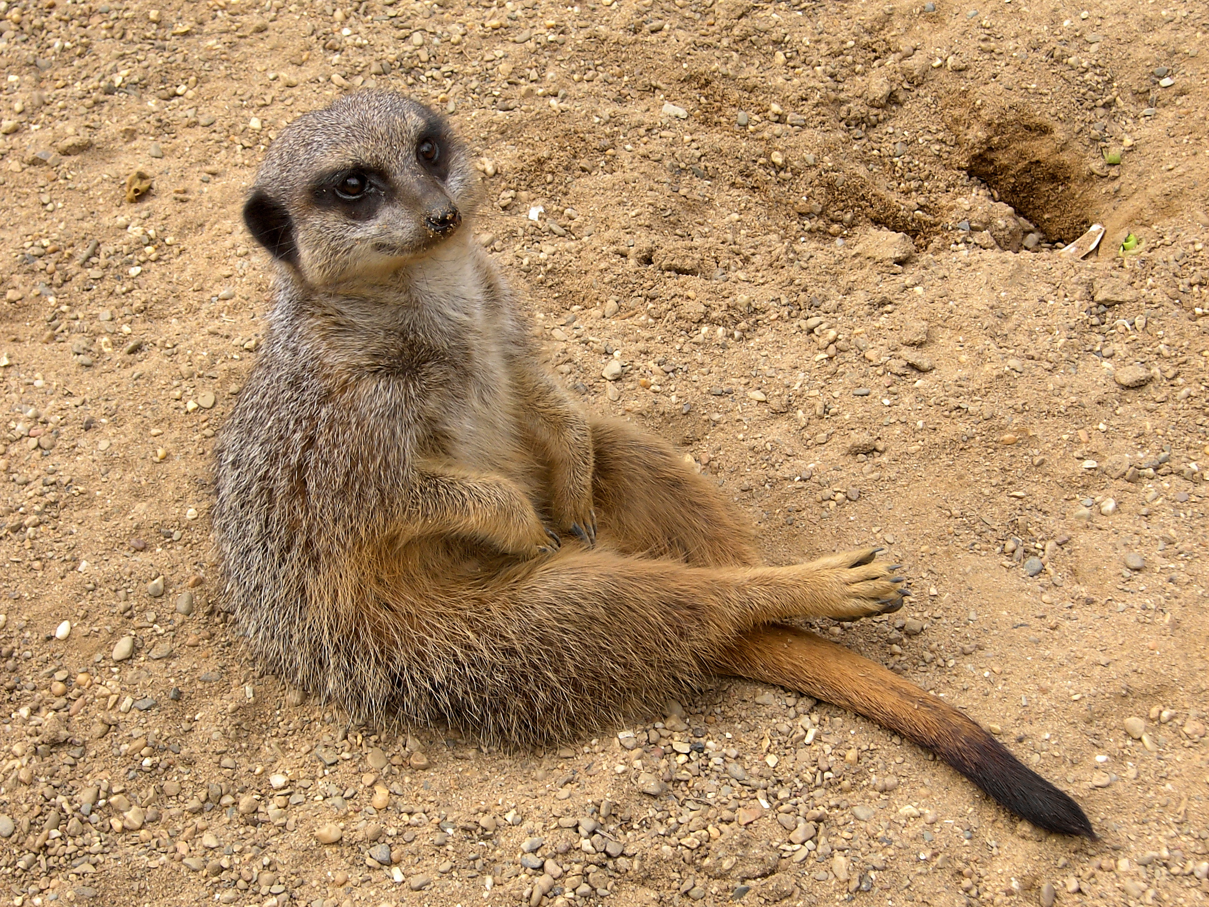 Meerkat at Antwerp Zoo.